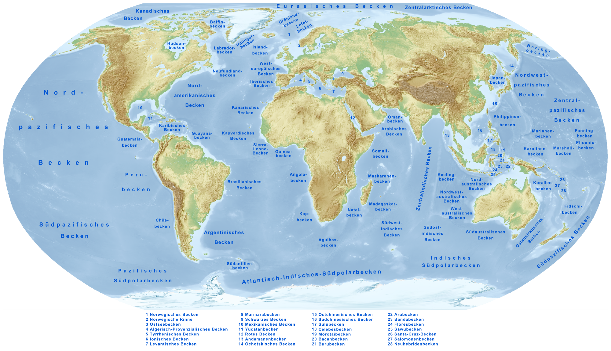 Map of oceanic basins. Note that the Baltic Sea basin (3) is not an oceanic basin but an epicontinental sea basin.